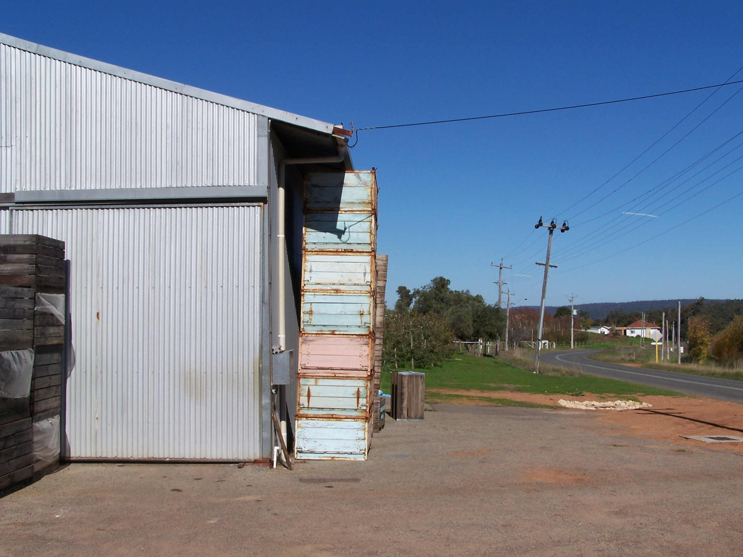 Main road thru Karragullen Western Australia, showing dominant region feature of fruit sheds and orchids